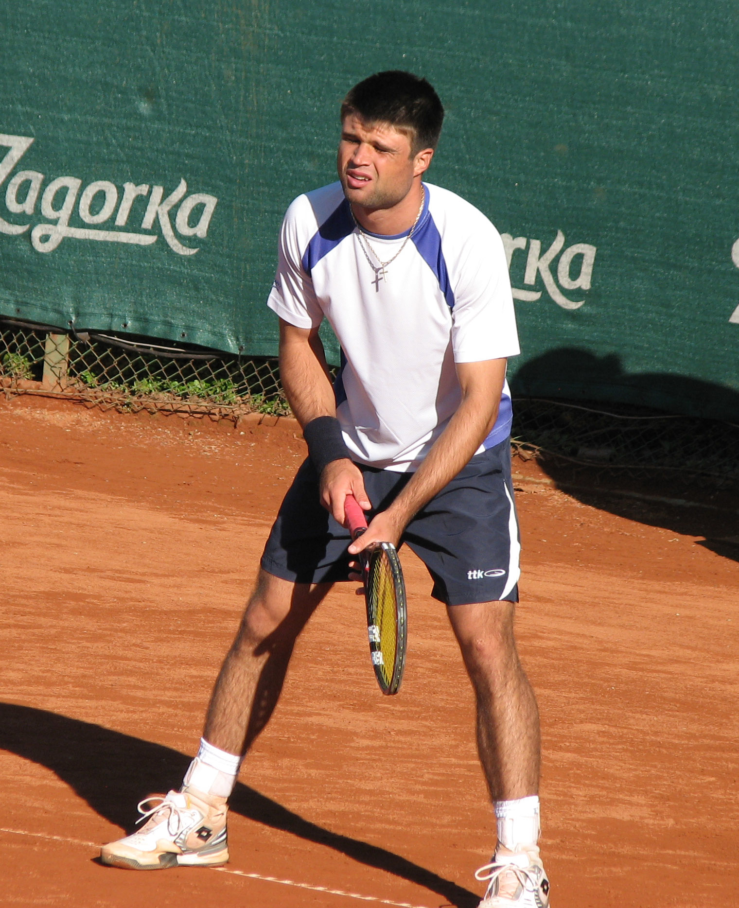 Simeon Ivanov (Zagorka tennis kup 2009)